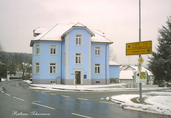 Courthouse Schwerzen